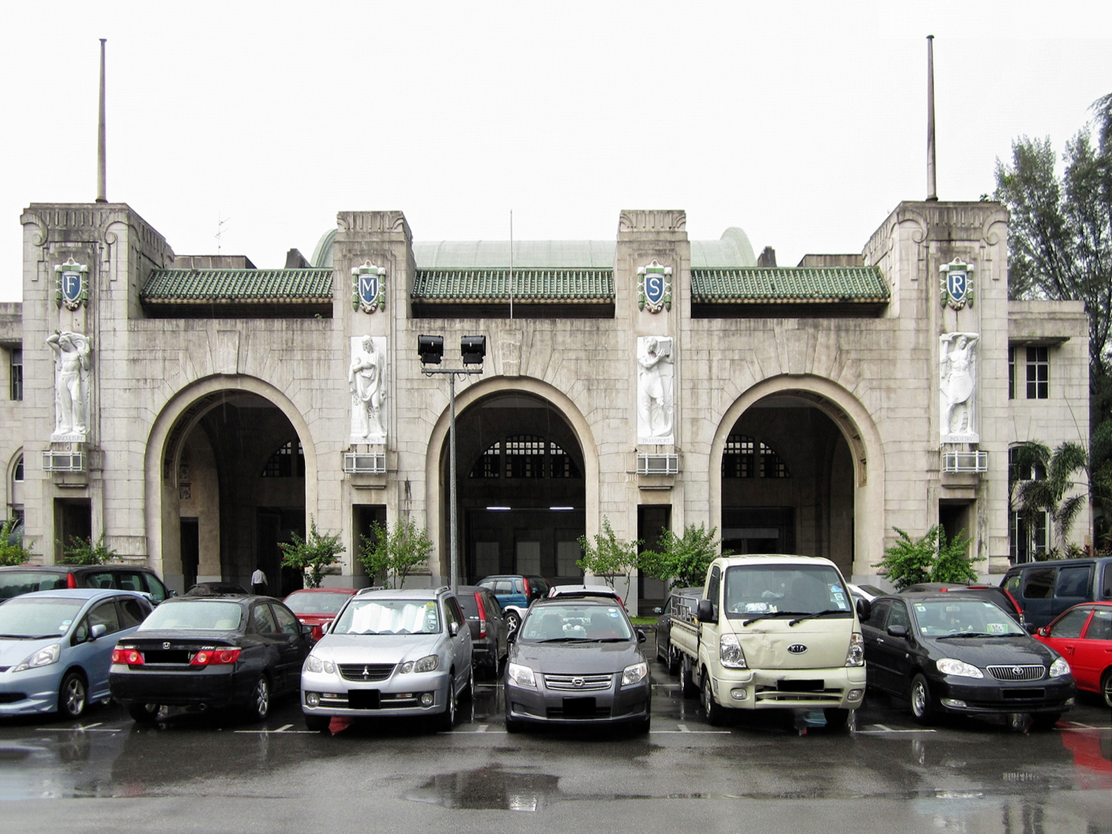 The Tanjong Pagar Railway Station in Singapore, exterior view.